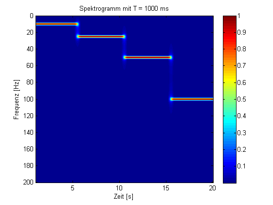 For the english version see STFT colored spectrogram 1000ms.png